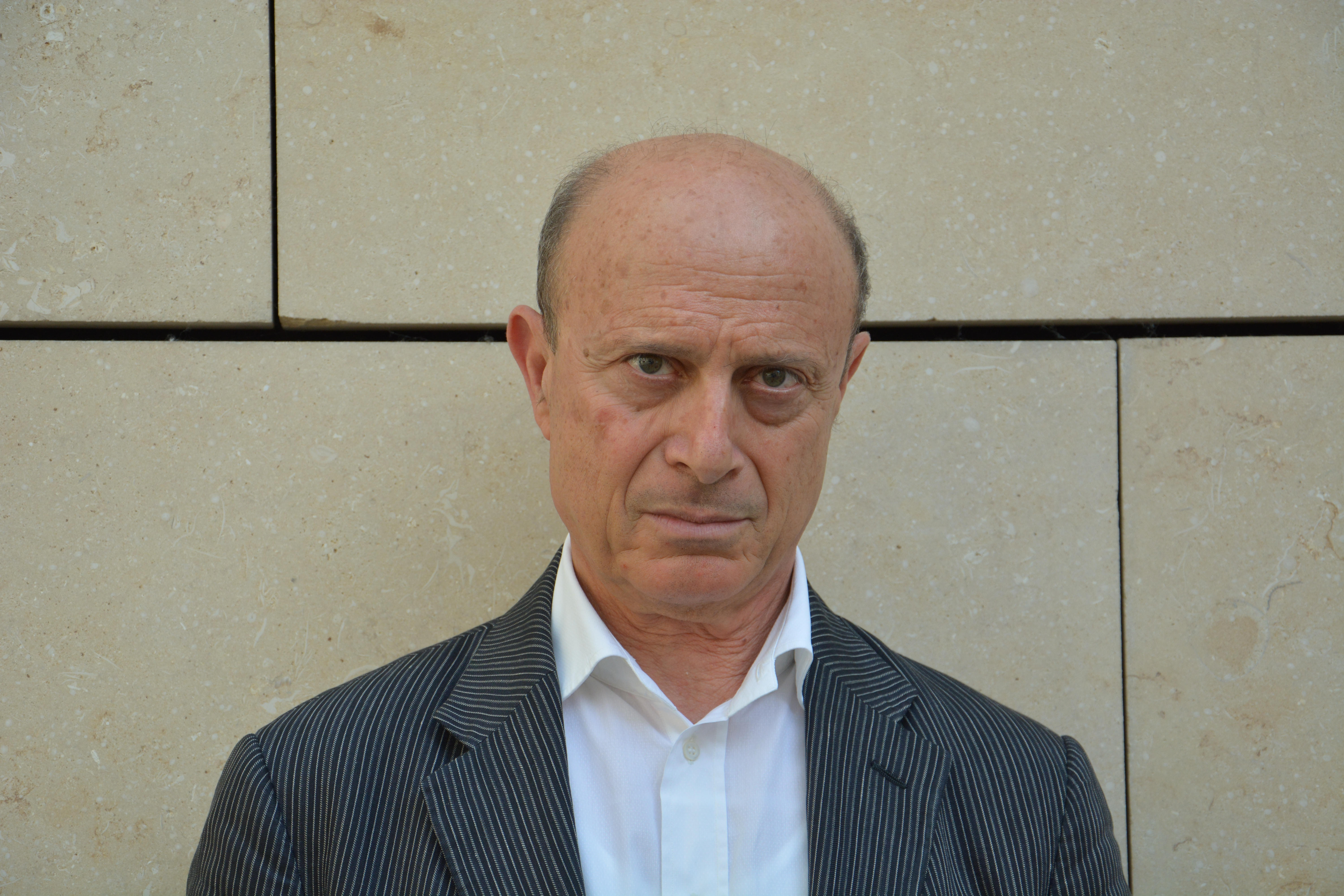 Franco Farinelli